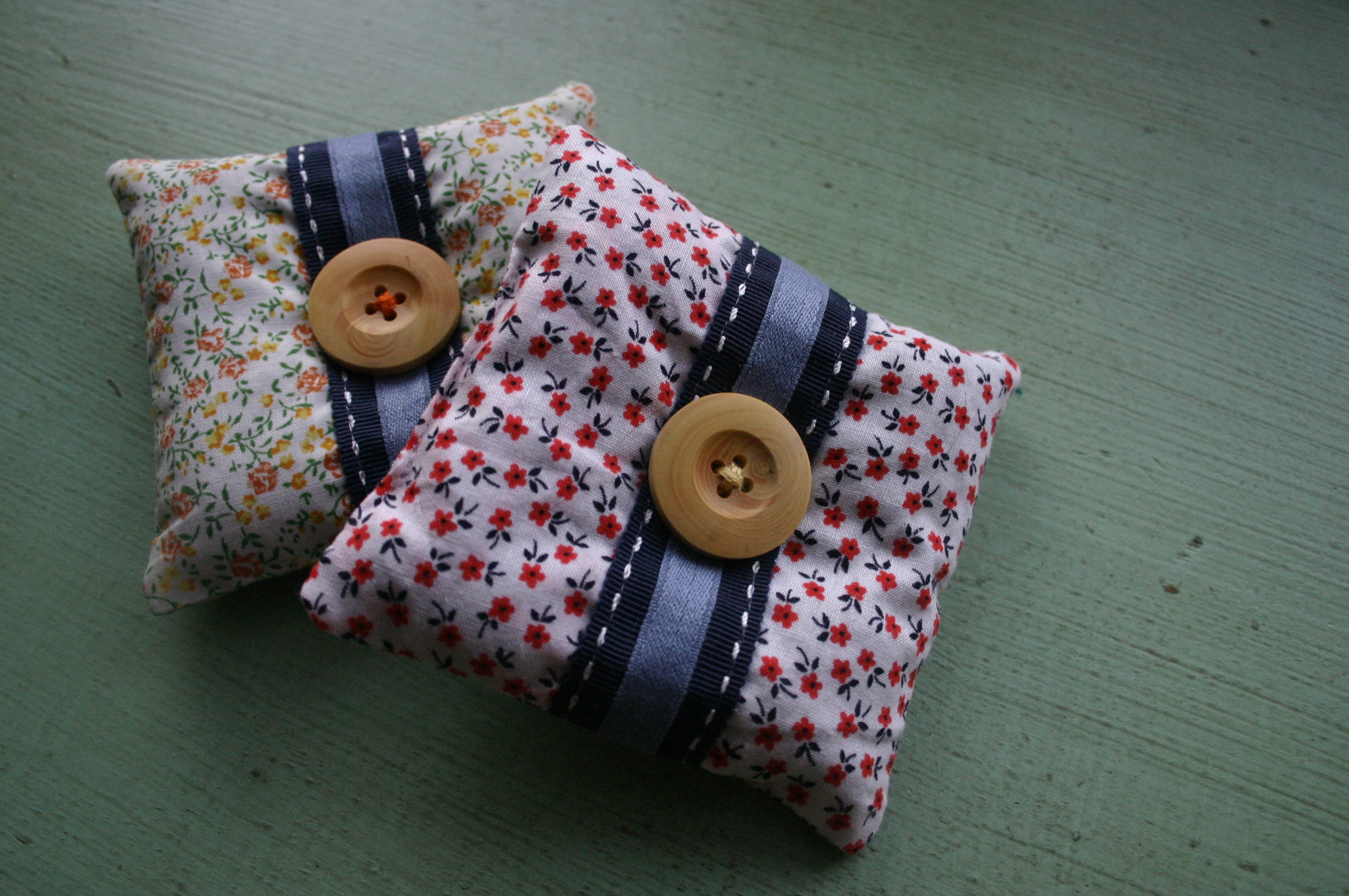 the two sachets